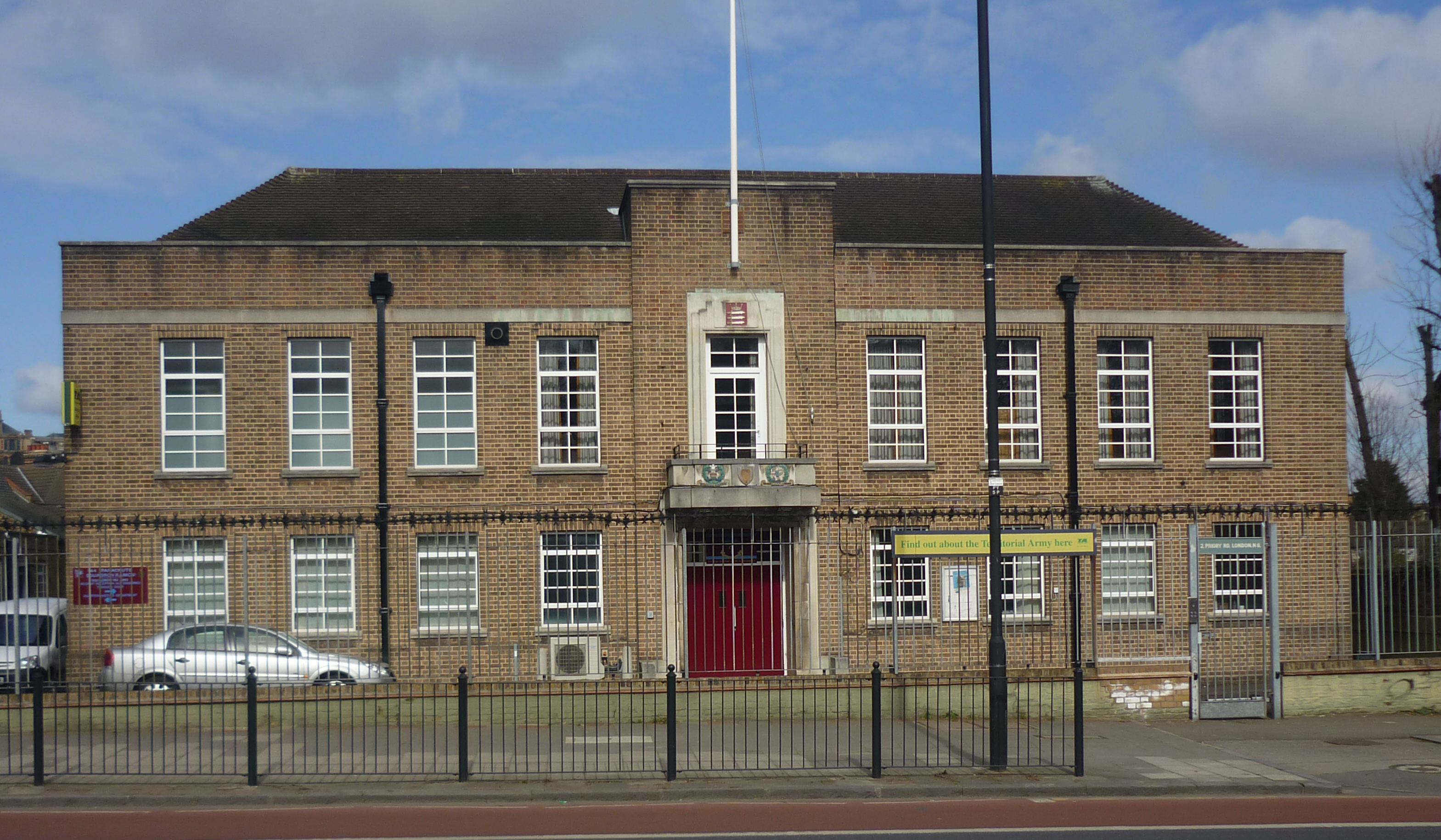 Territorial Army (TA) Centre, Hornsey, London N8